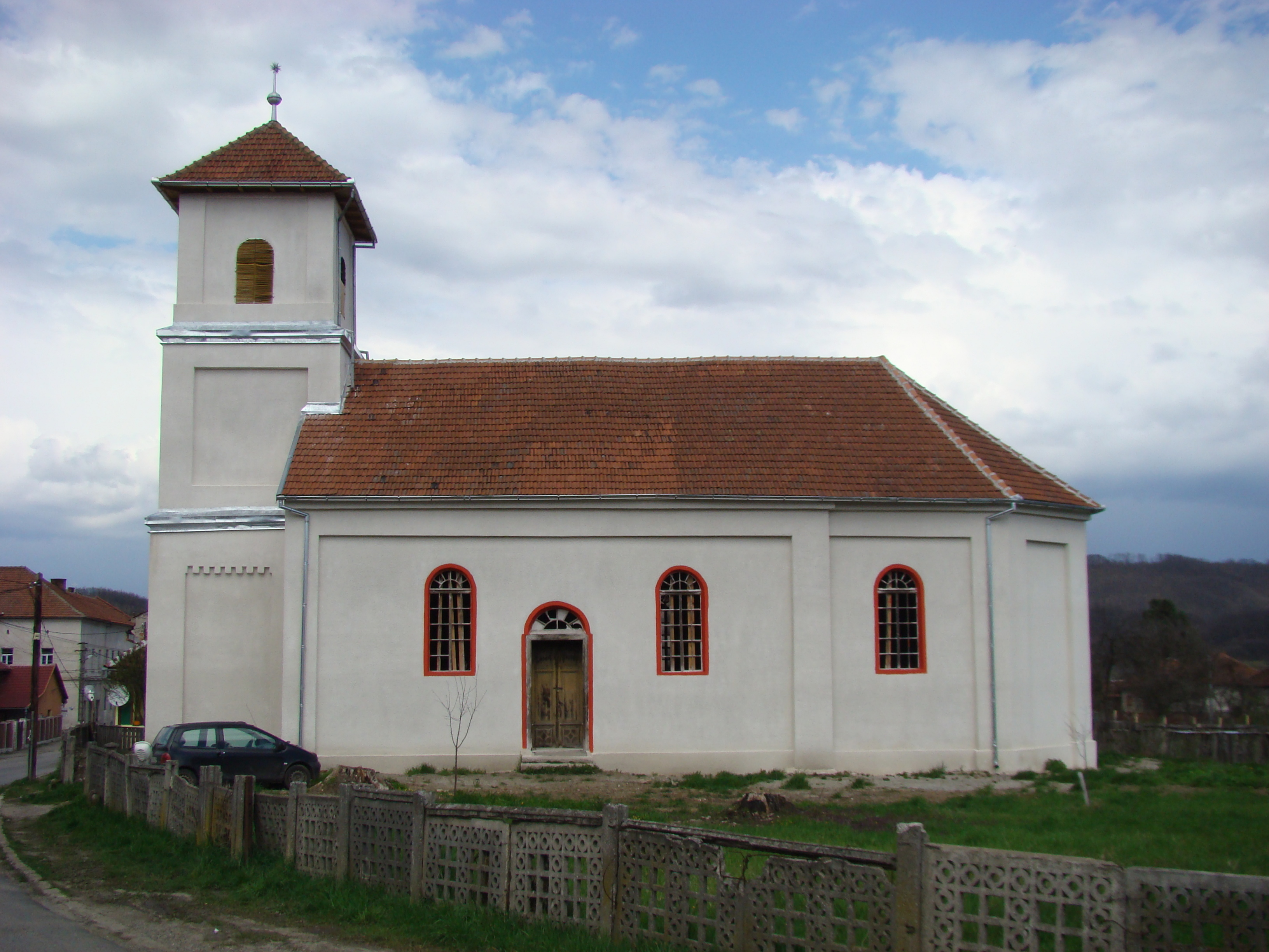 Baia de Criș, Hunedoara county, Romania